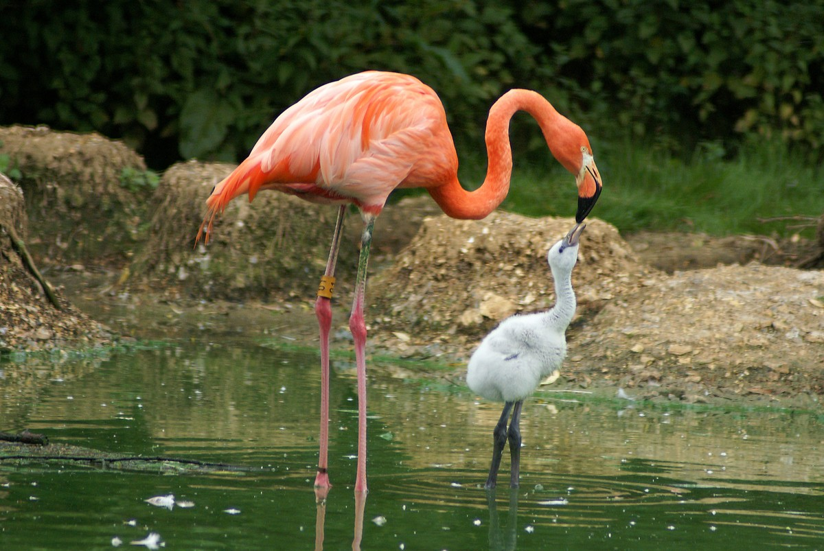 Mother feeding chick Caribbean flamingo at Whipsnade Zoo